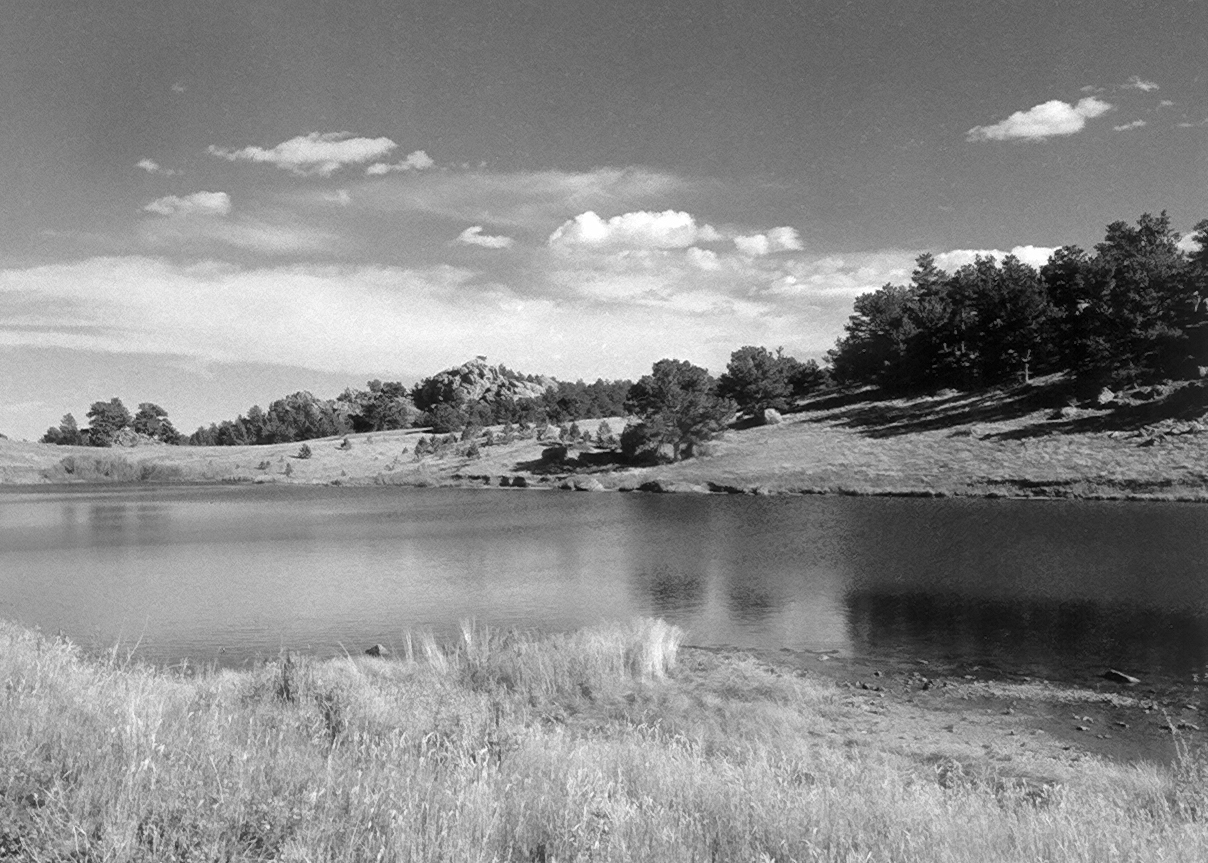 A rocky, pine-covered ridge runs through the center of the Remount Ranch in Southeastern Wyoming. Author Mary O'Hara lived at the ranch when she wrote her novel "My Friend Flicka". The Remount is located at more than 7,500 feet in elevation in the eastern foothills of the Laramie Range.